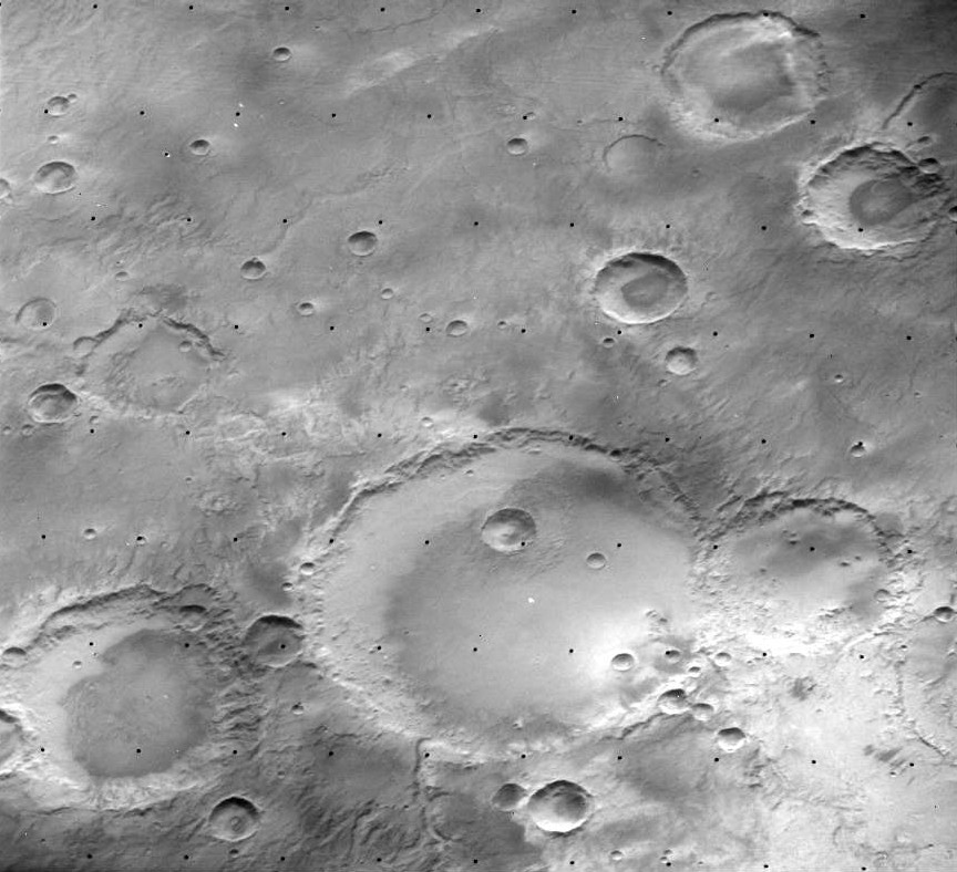 Oblique view of Mädler crater (bottom center) on Mars. Viking Orbiter 1 image from camera A (615A55). Red filter was used for this image. Resolution is about 239 m/pixel. North is in upper left. Emission Angle: 40.6 Incidence Angle: 56.9 Latitude: -9.7 Longitude: 3.4 Phase Angle: 96.8